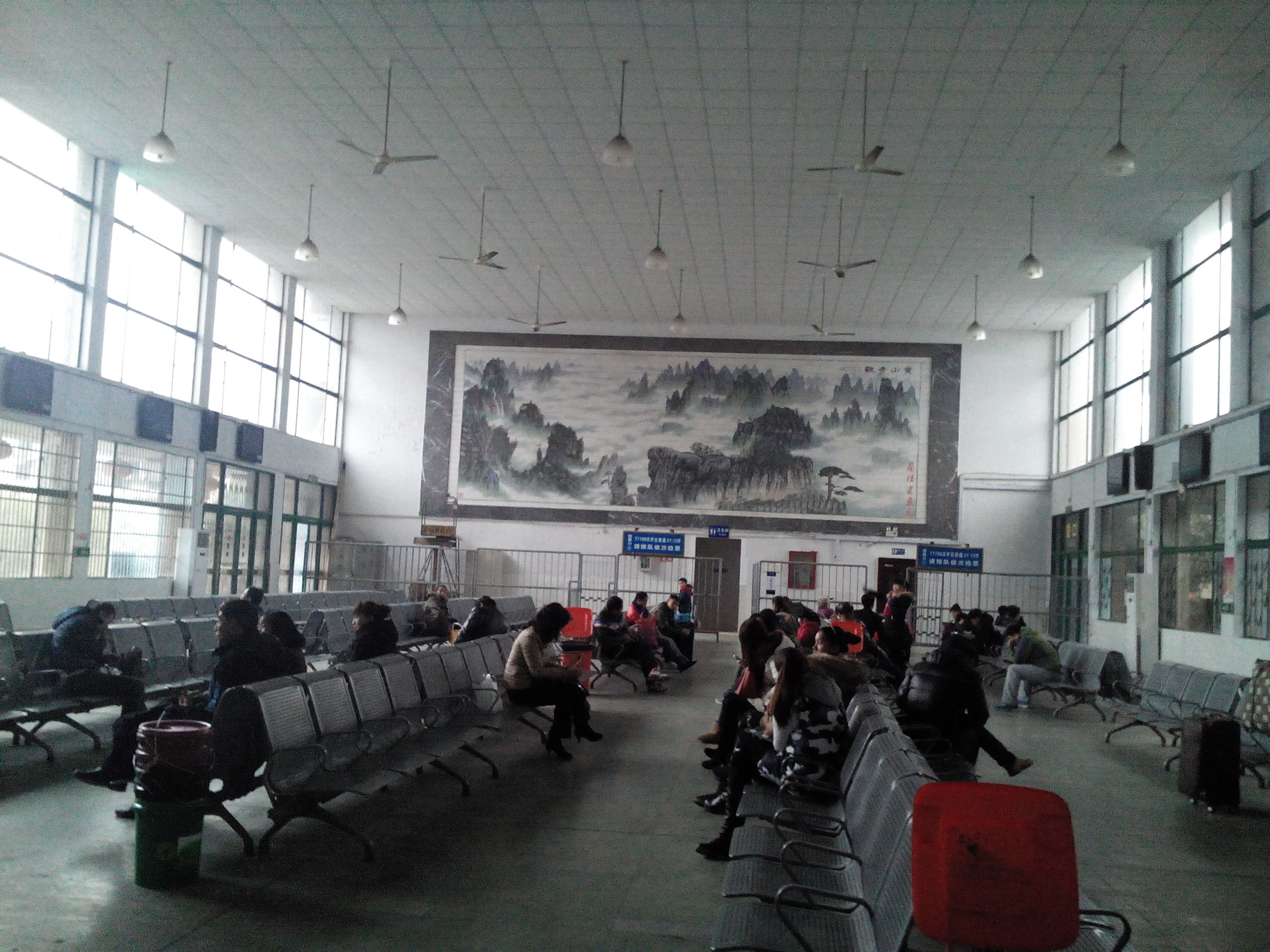 Waiting Room of Lanxi Railway Station